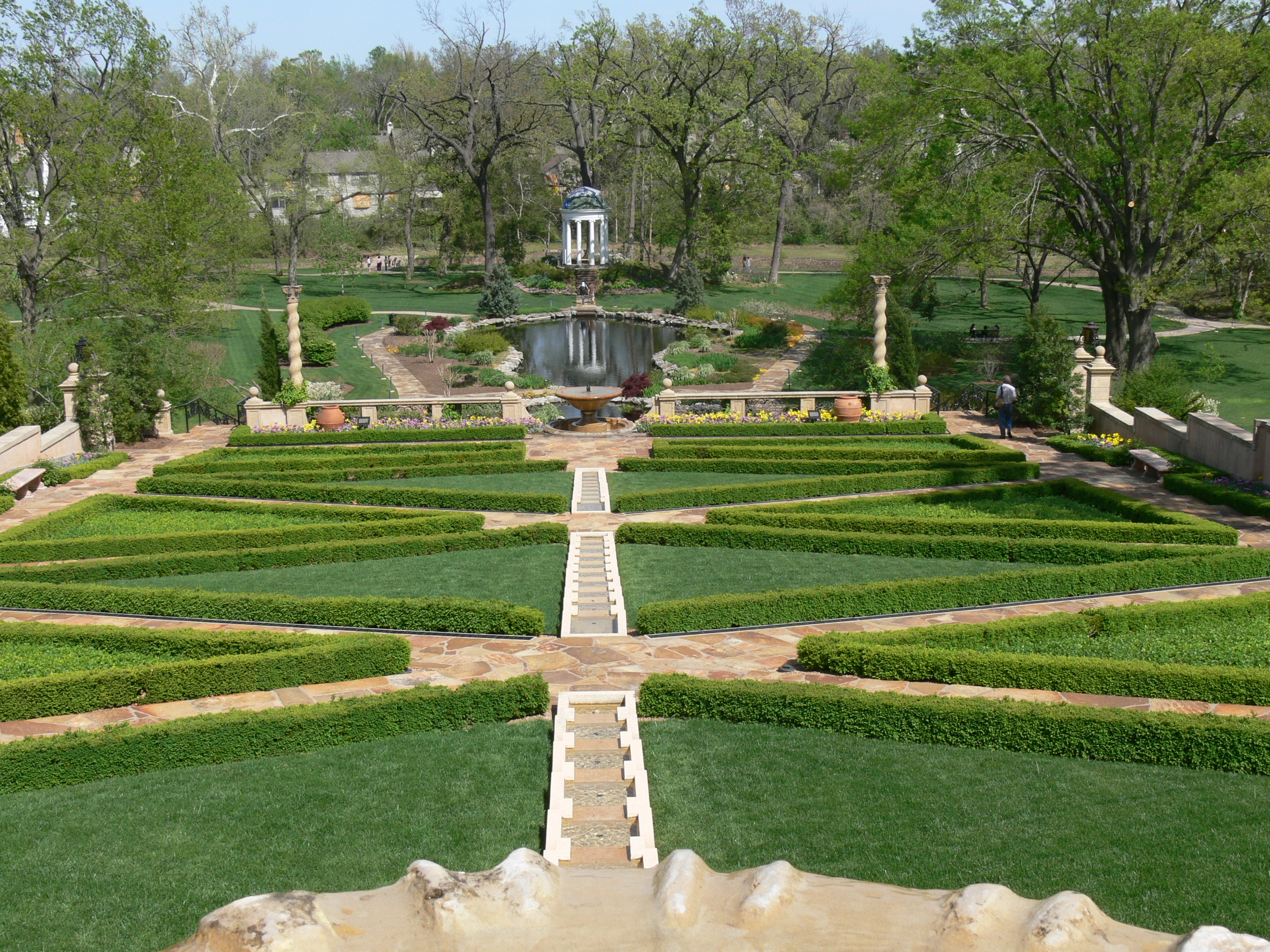 The Philbrook Museum of Art. Renaissance style gardens